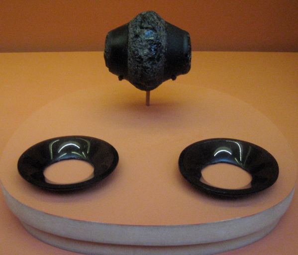 Mexico Worked Obsidian Core, A.D. 500-1500 Sculpture, Obsidian, Height: 3 in. (7.62 cm) Gift of Constance McCormick Fearing (AC1992.134.4) Mexico, Aztec Pair of Earflares, A.D. 1440-1521 Jewelry/personal adornment, Obsidian, Height: 3/4 in (1.91 cm); Circumference: 10 in. (25.4 cm) Gift of Constance McCormick Fearing (M.85.233.12a-b) Wikipedia Loves Art at the Los Angeles County Museum of Art This photo of item # AC1992.134.4 at the Los Angeles County Museum of Art was contributed under the team name "artifacts" as part of the Wikipedia Loves Art project in February 2009. Los Angeles County Museum of Art The original photograph on Flickr was taken by Beesnest McClain—please add a comment to the original Flickr page whenever a use has been made on Wikipedia or another project. Project galleries on Flickr: this institution, this team